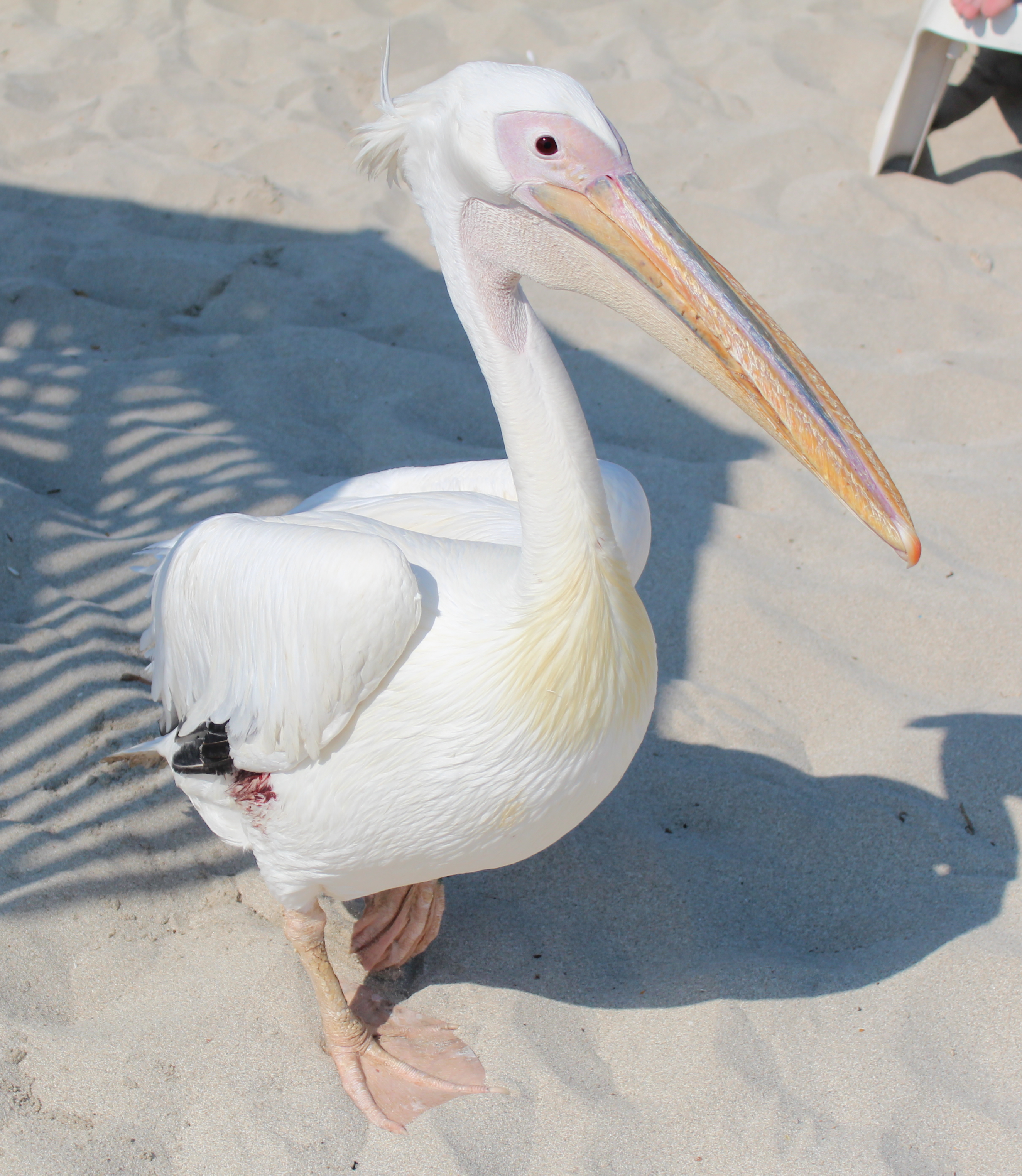 A Great White Pelican at Nissi Beach, Cyprus October 2011.